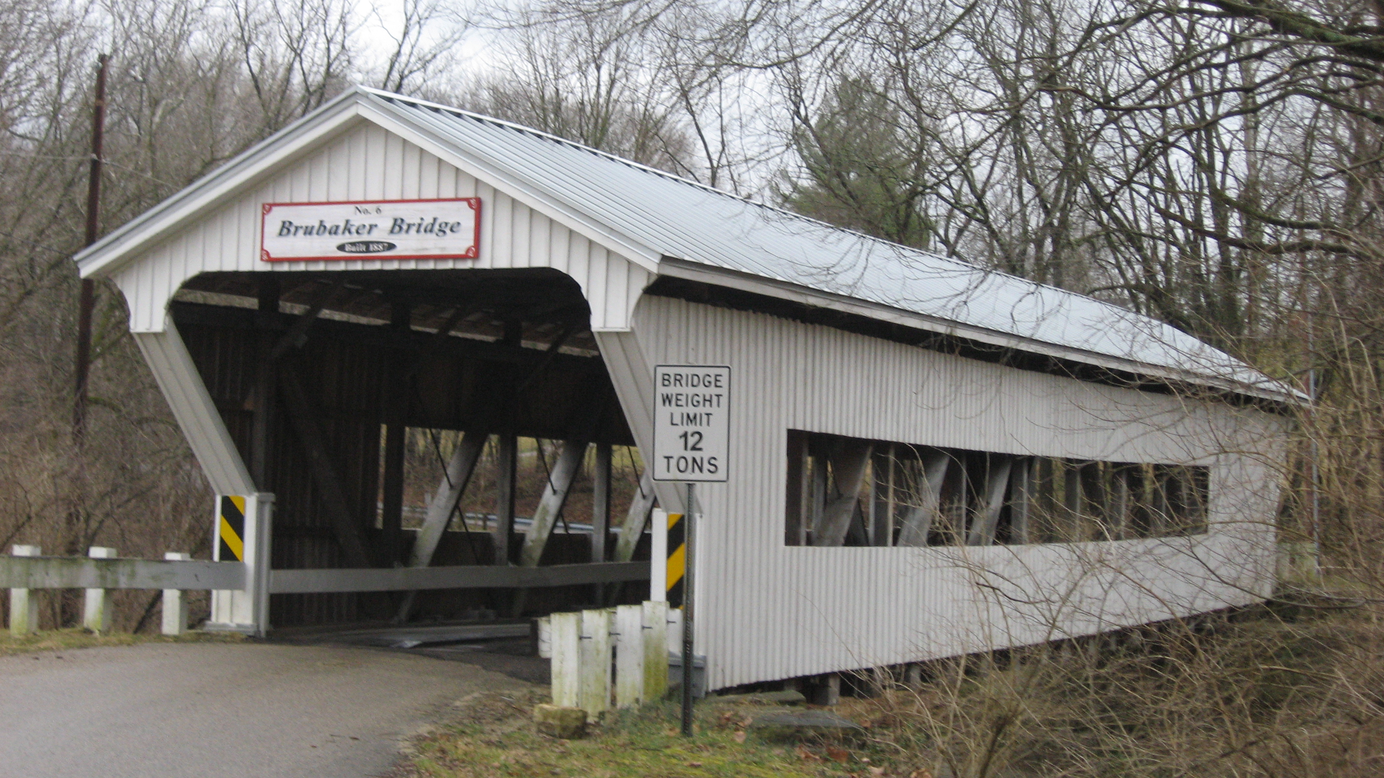 Western portal and southern (upstream) side of the Brubaker Covered Bridge, which carries Aukerman Creek Road over Sandy Run west of Gratis in Gratis Township, Preble County, Ohio, United States. Built in 1887, it is listed on the National Register of Historic Places.